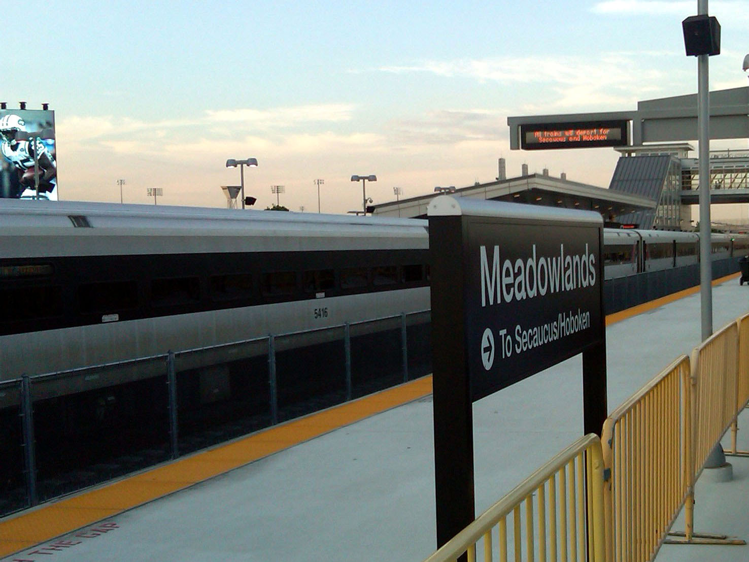 Platform of the Meadowlands Station before a New York Jets game at MetLife Stadium